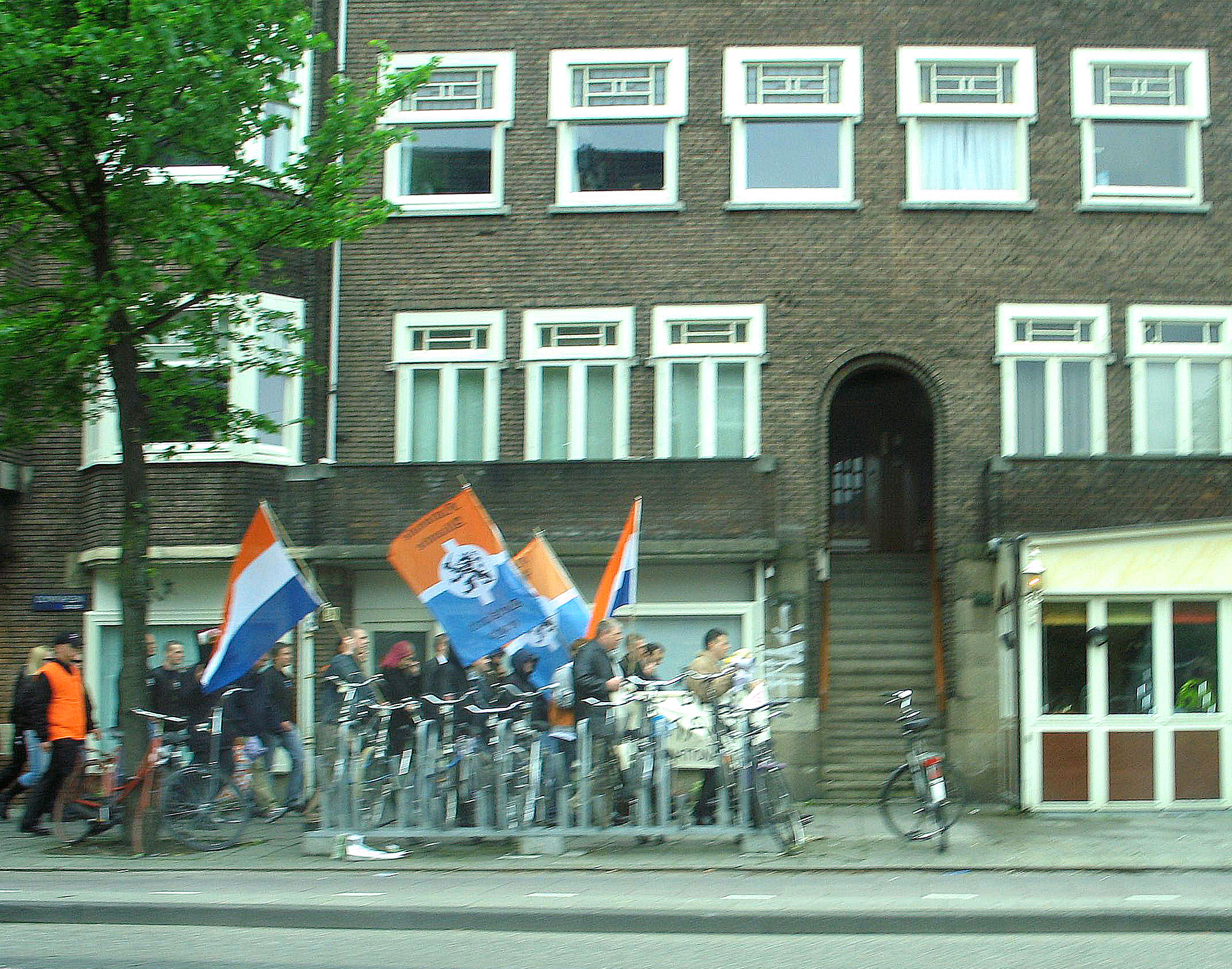 Right wing demonstration in Amsterdam. This is in Amsterdam-Zuid